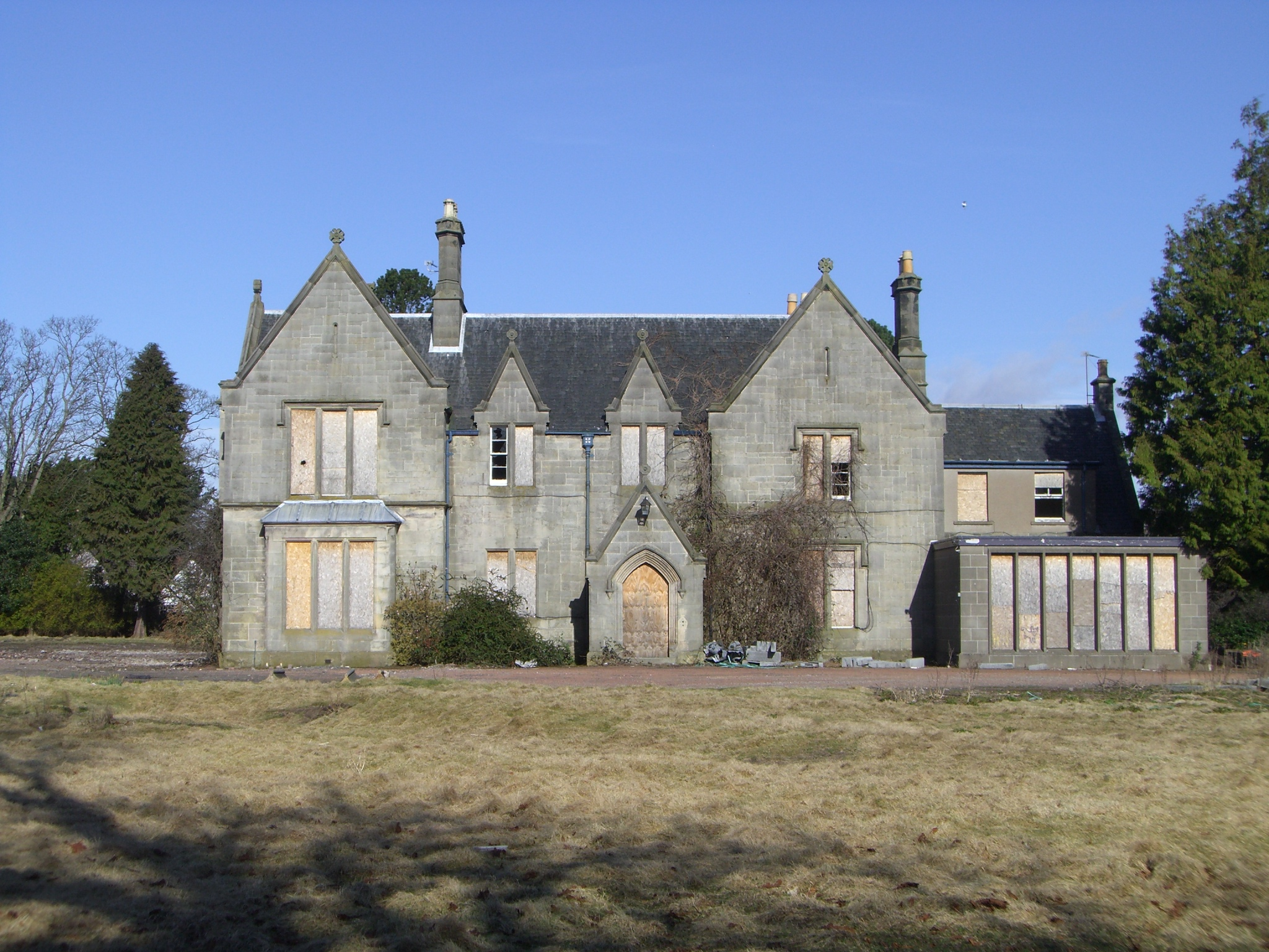 The former New Park School, St Andrews, Fife, Scotland.